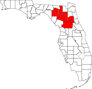 Based on Edited in photoshop elements 2. Highlighted additional counties for usage in the North Central Florida article. Exported as GIF. As it was originally licensed under the GNU licensing, I am obliged to do so as well.